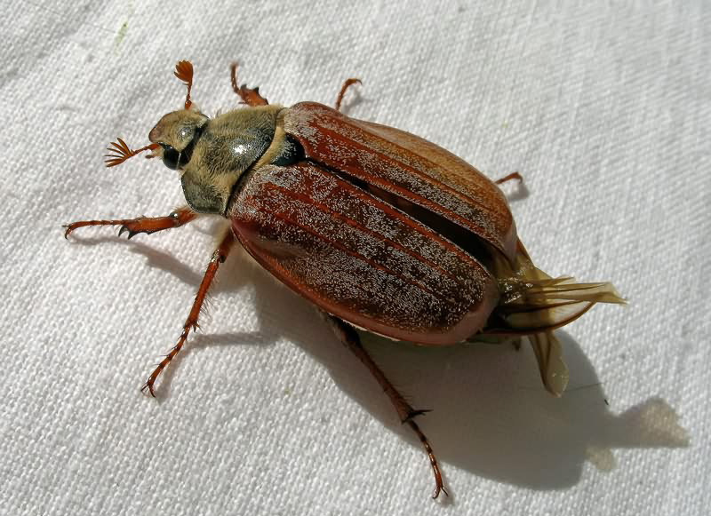 Melolontha melolontha